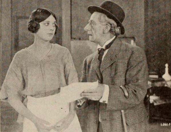 Still from the American drama film The Cruise of the Make-Believes (1918) with Lila Lee and Spottiswoode Aitken, on page 35 of the September 21, 1918 Exhibitors Herald.